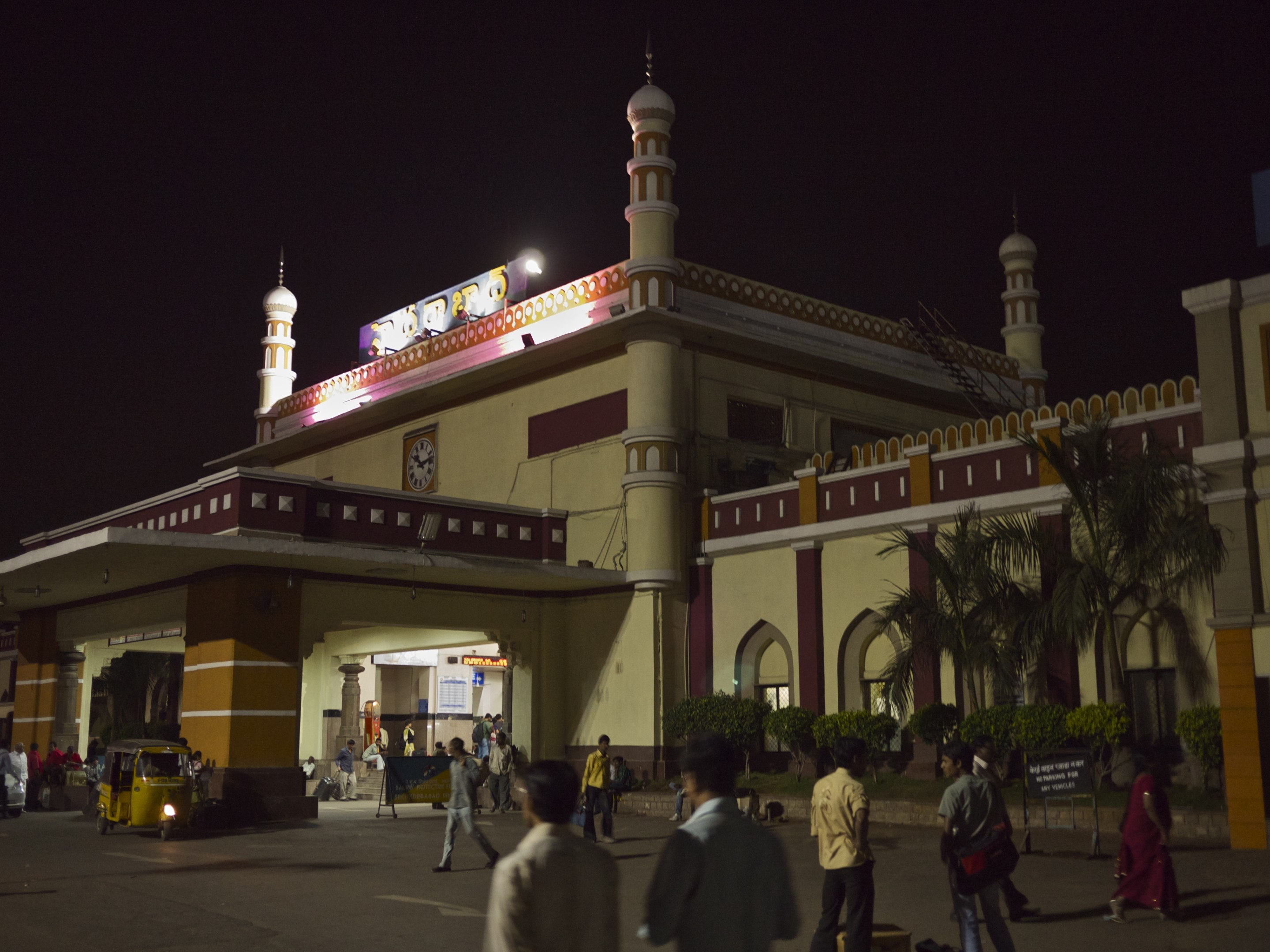 Hyderabad Deccan Railway Station, Nampally